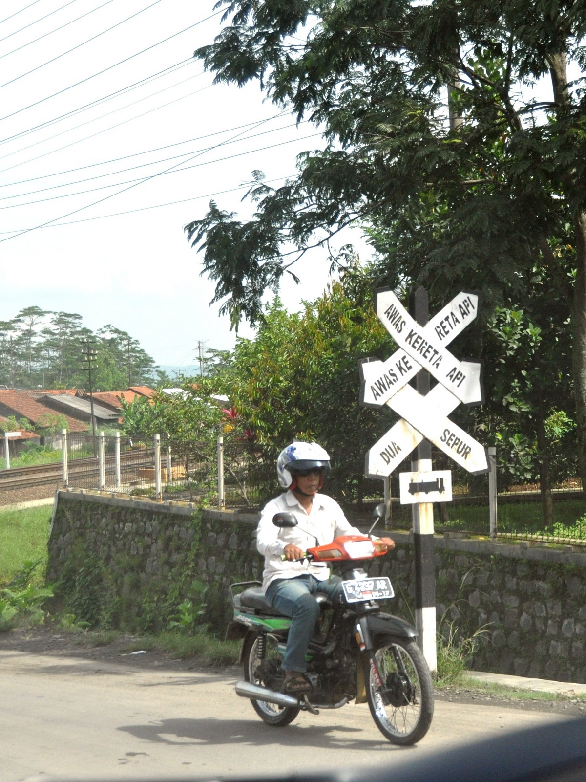 Level crossing sign near Kretek train station, Brebes, Central Java, Indonesia.